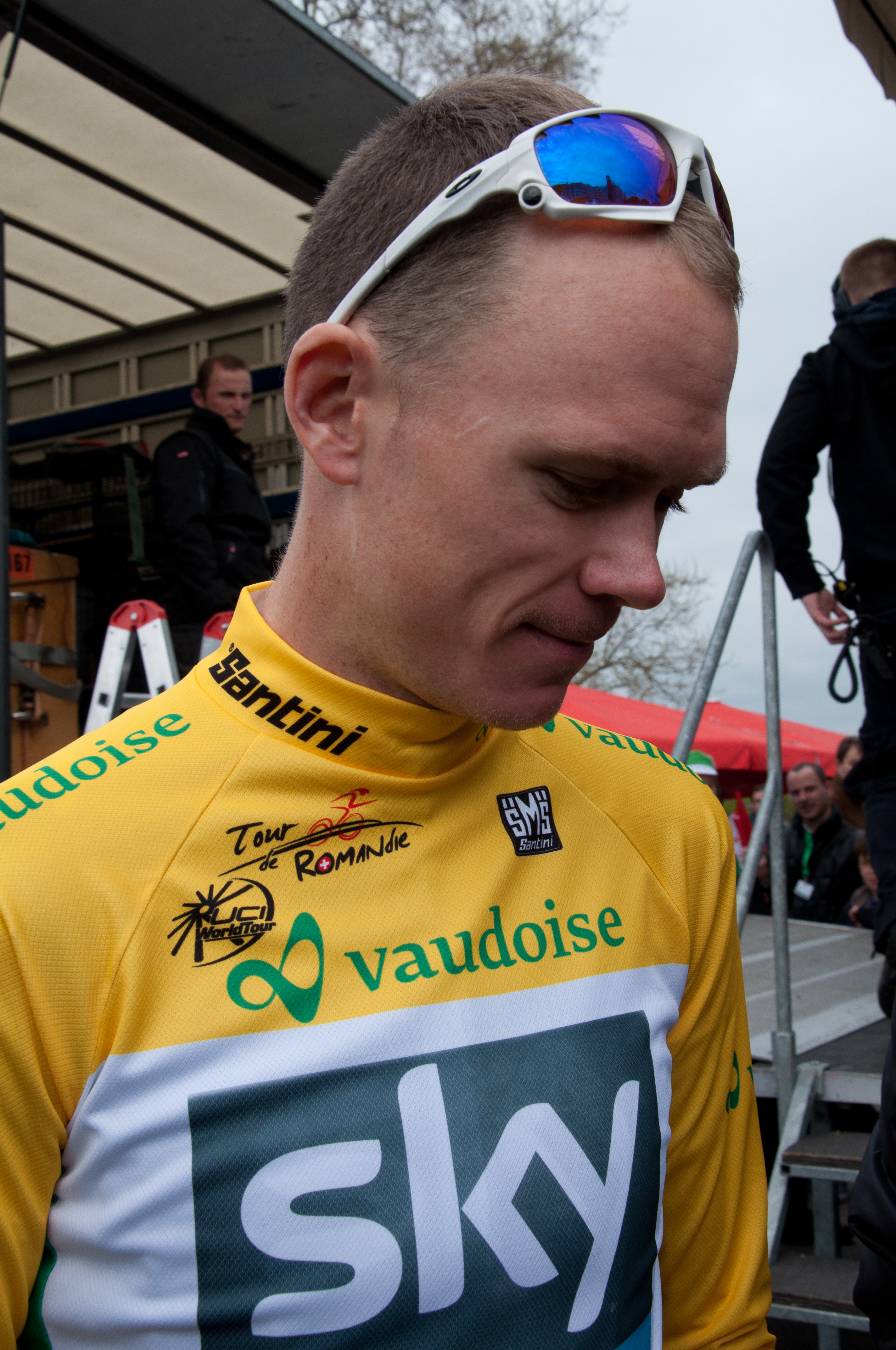 Christopher Froom wearing the final yellow jersey of the 2013 Tour de Romandie.